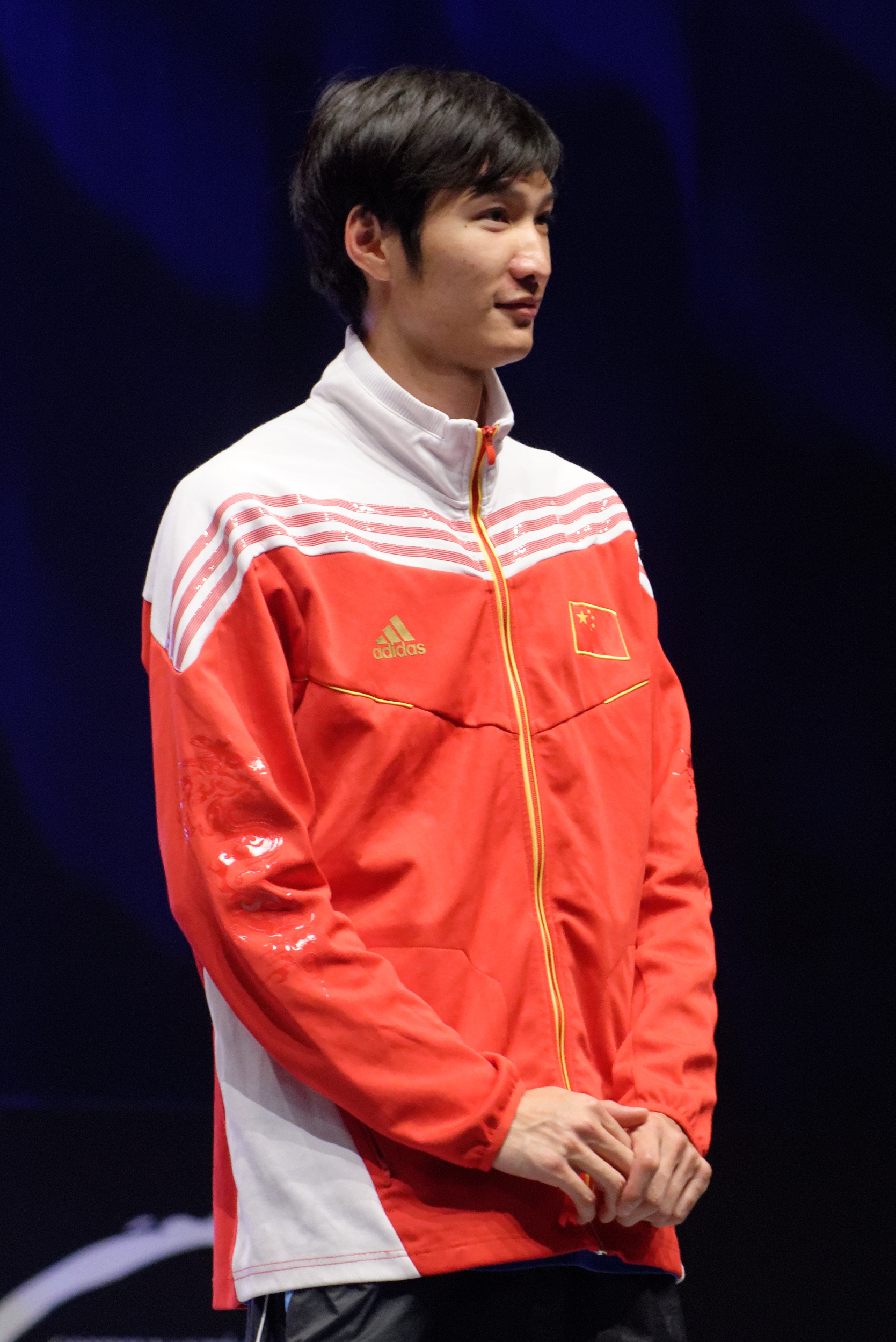 Lei Sheng at the trophies presentation of the Master de fleuret 2013 in Dammarie-les-lys, France.